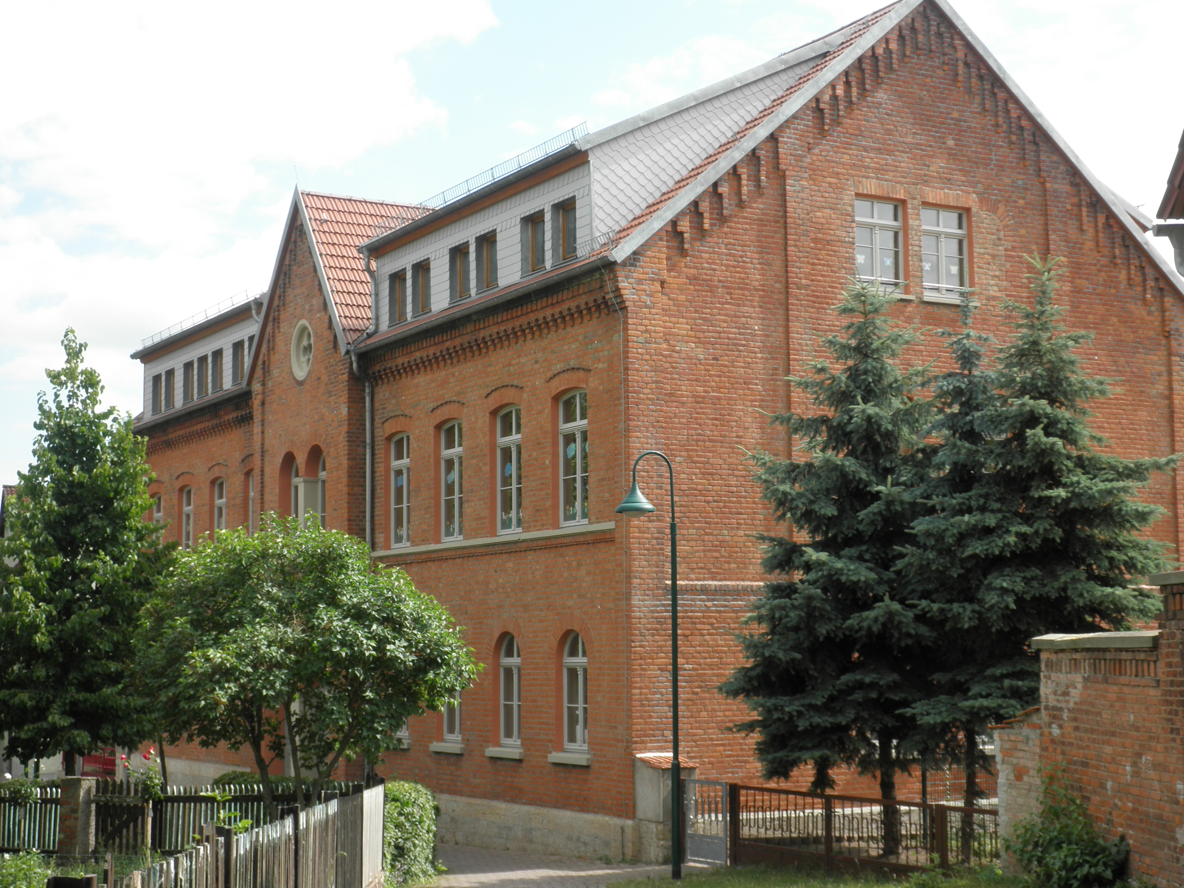 School Building in Udestedt (Thuringia)